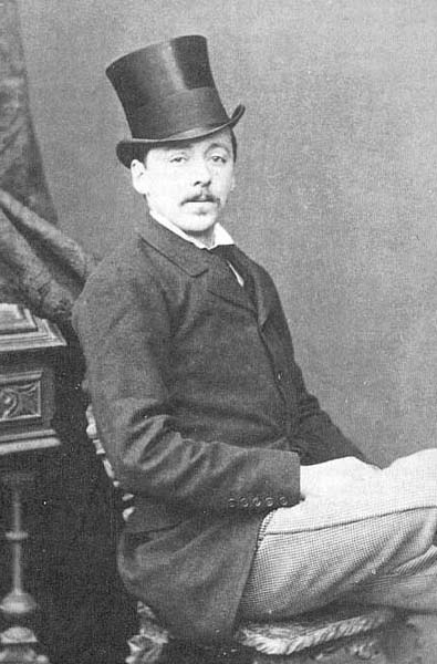 Portrait of George Spencer-Churchill, 8th duke of Marlborough, ca 1884